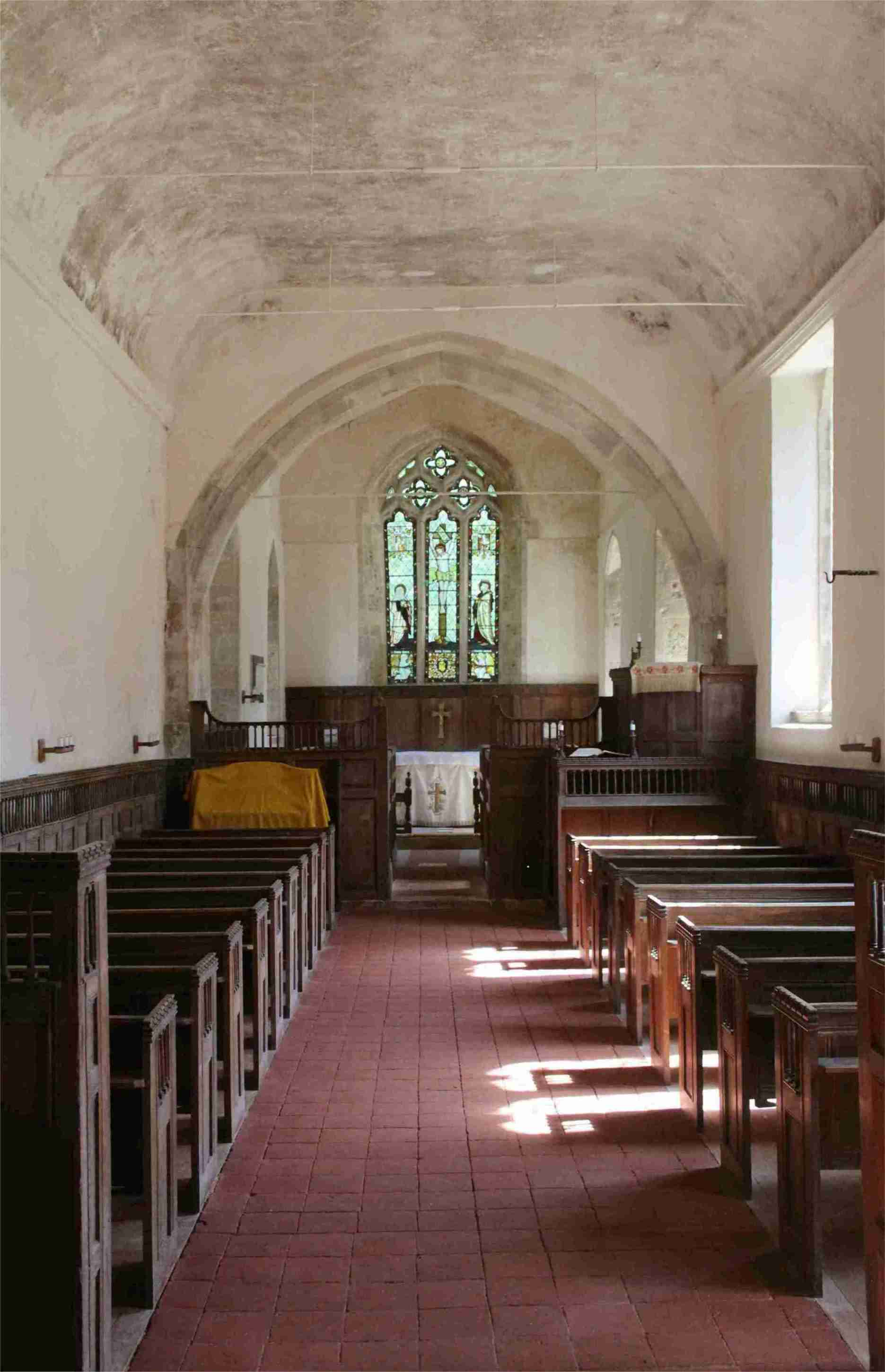 Looking east inside the church of St Mary and St Lawrence, Stratford Tony, UK